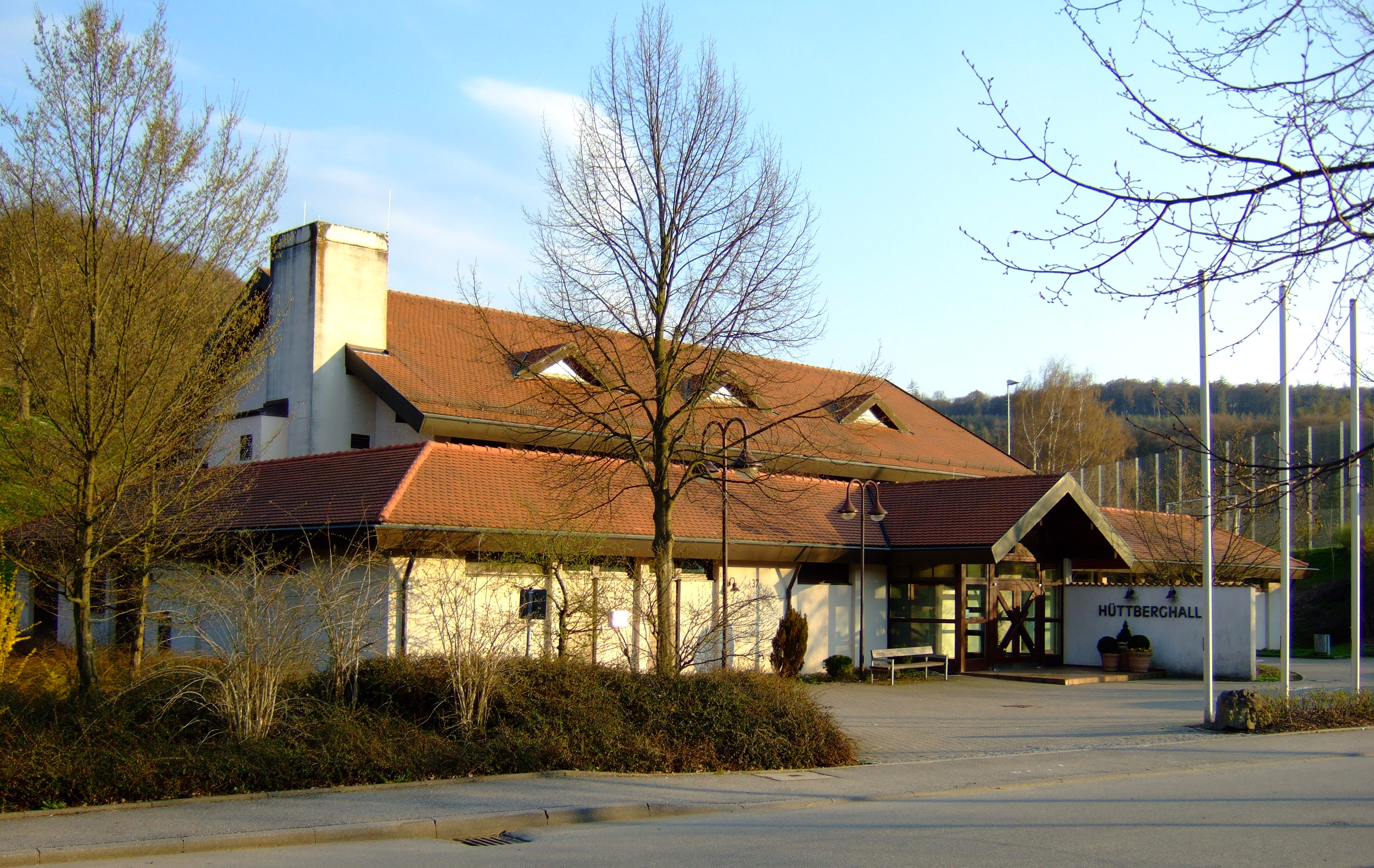 Multi-Purpose Hall "Hüttberghalle" of the Village Neckarsulm-Dahenfeld (built 1987)